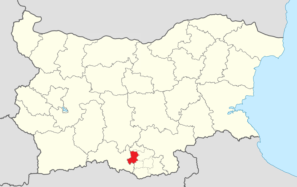 Location map of Ardino Municipality within Bulgaria and Kardzhali province